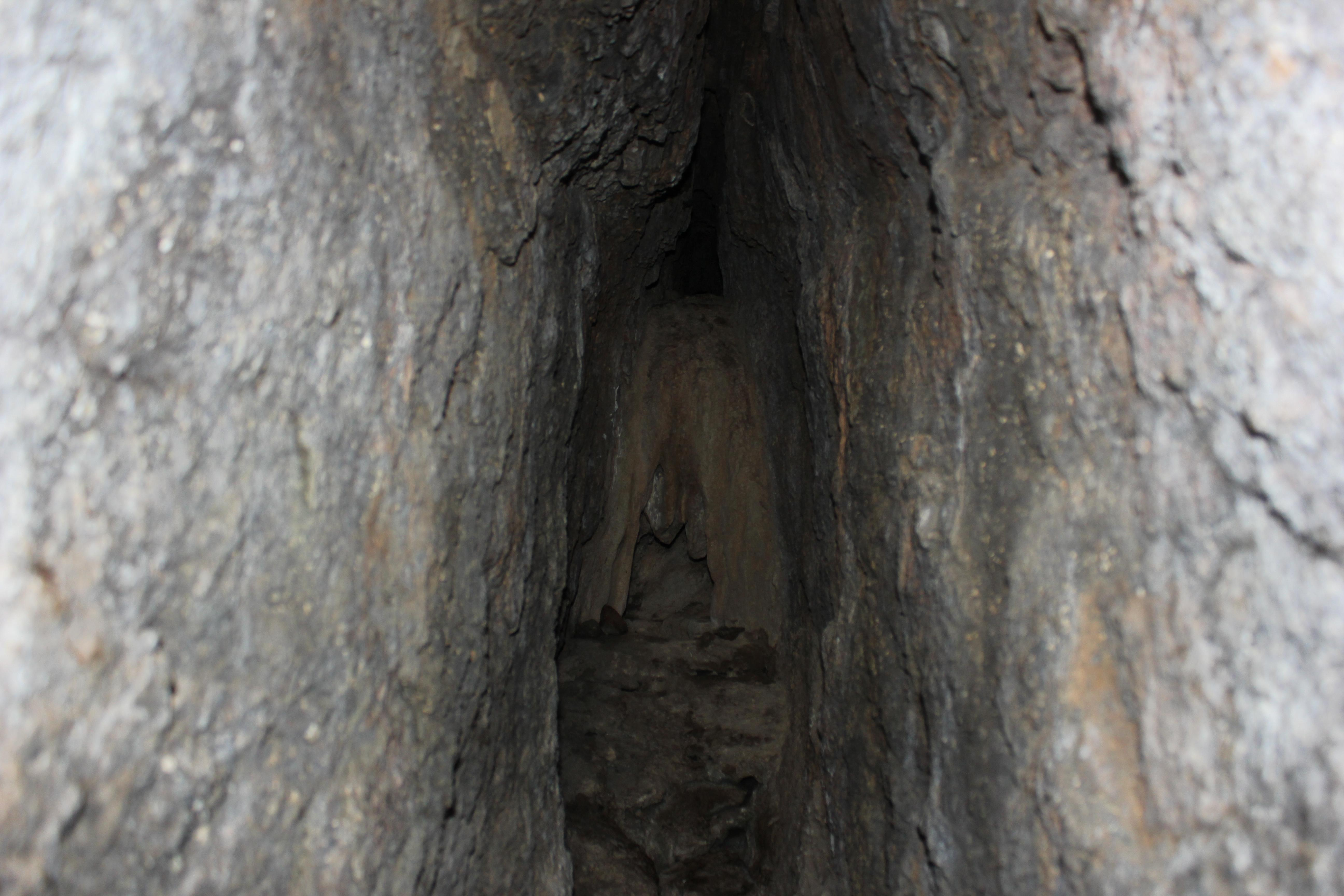 Dhodap : One of the most Interesting thing we came across is that there is "Cow of stone" moving inside the this hill. It's hear by the peoples in the nearby villages that on every "Vasubaras", this Cow moves inside by the distance of 4 grains.